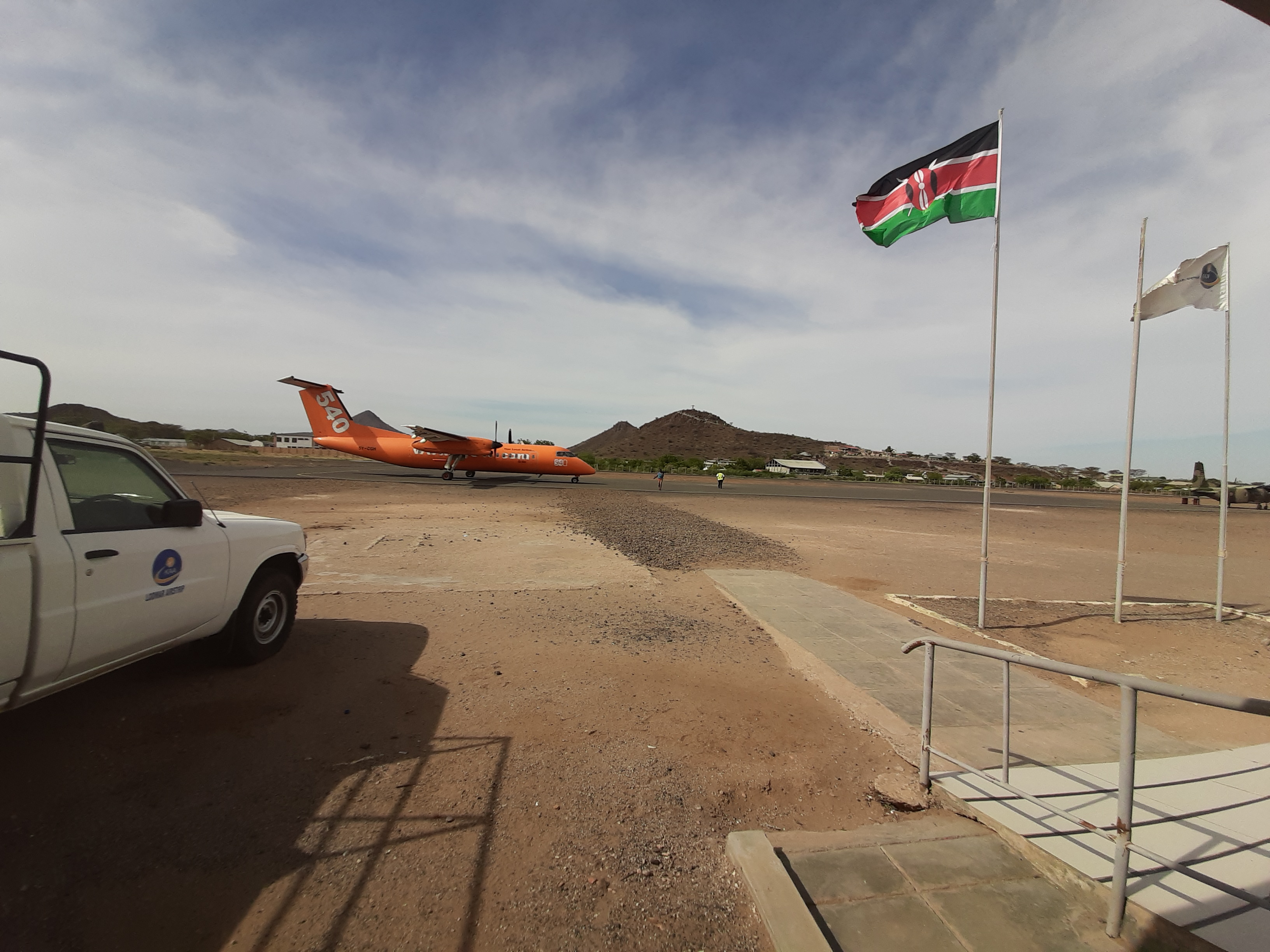 This is an image with the theme "Africa on the Move or Transport" from: Kenya